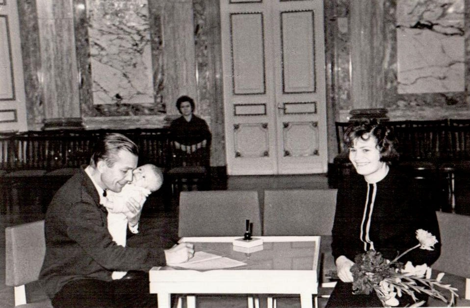 Bulusheva